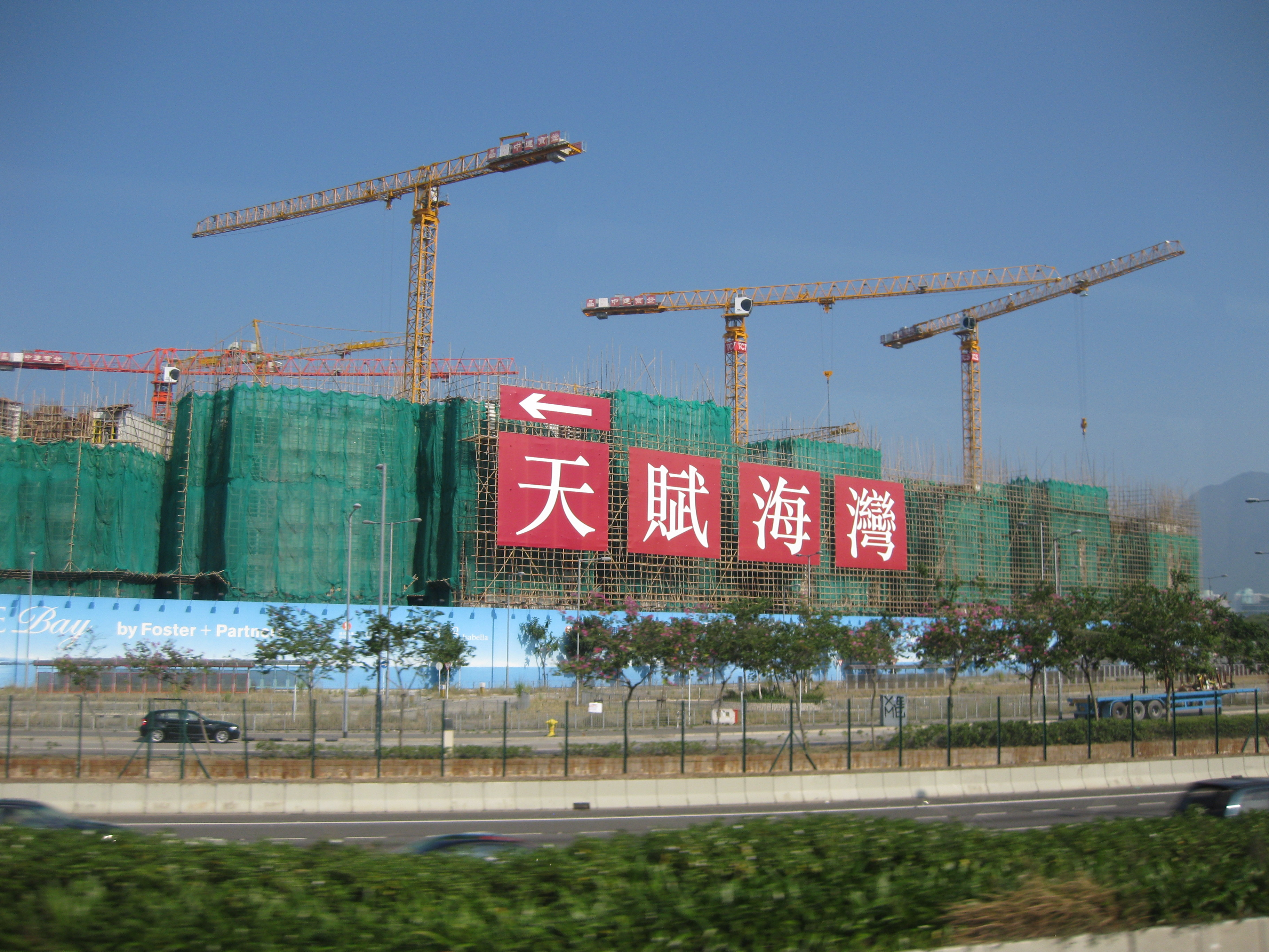 Providence Bay in November 2011